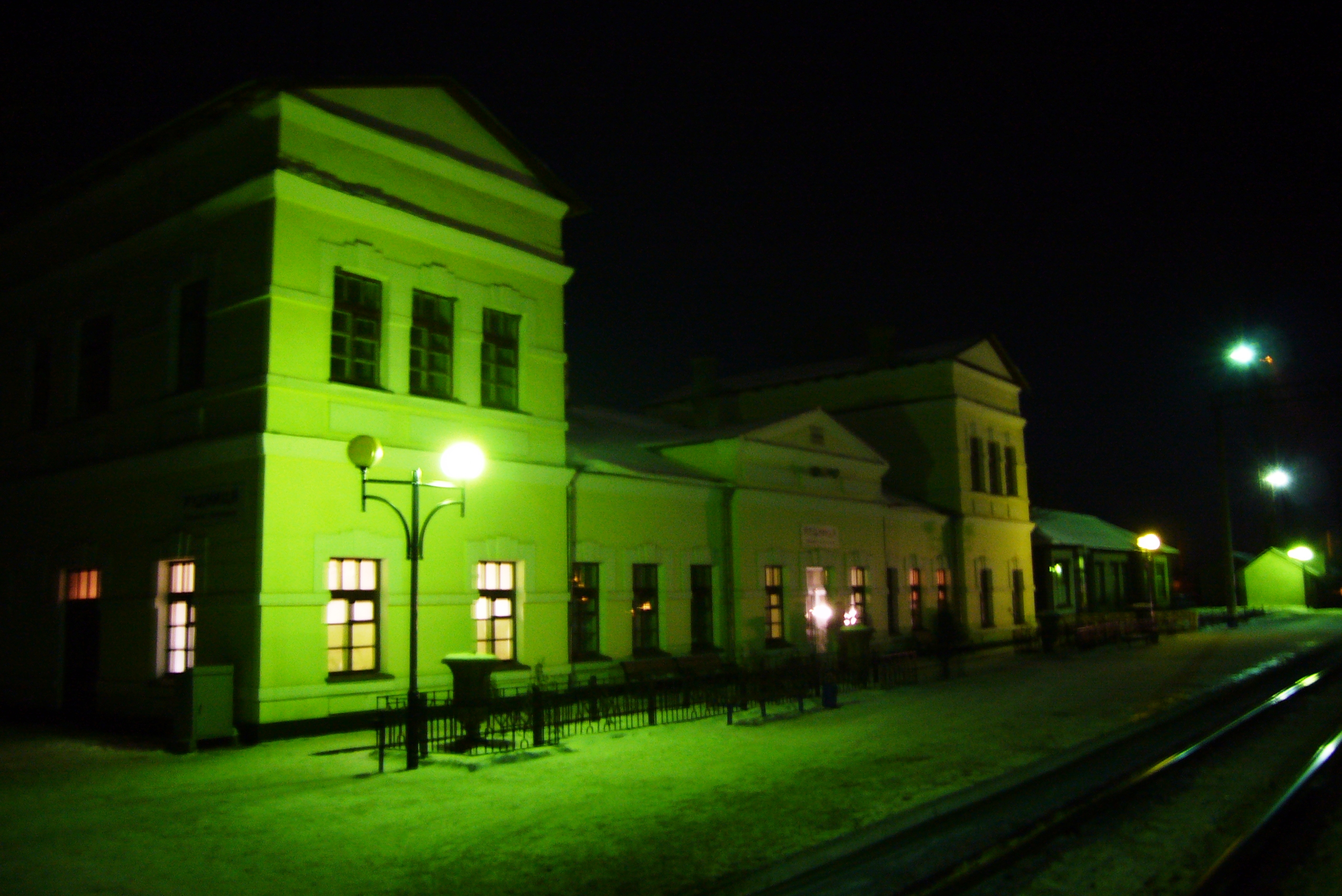 Rudnitsa Railway Station in a winter evening, Vinnitsa Oblast, Ukraine.